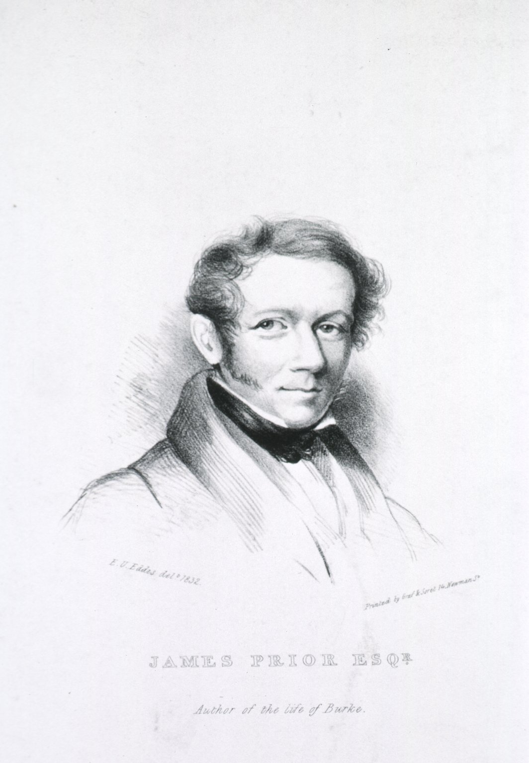 Portrait of Sir James Prior (c.1790–1869), Irish surgeon and writer.